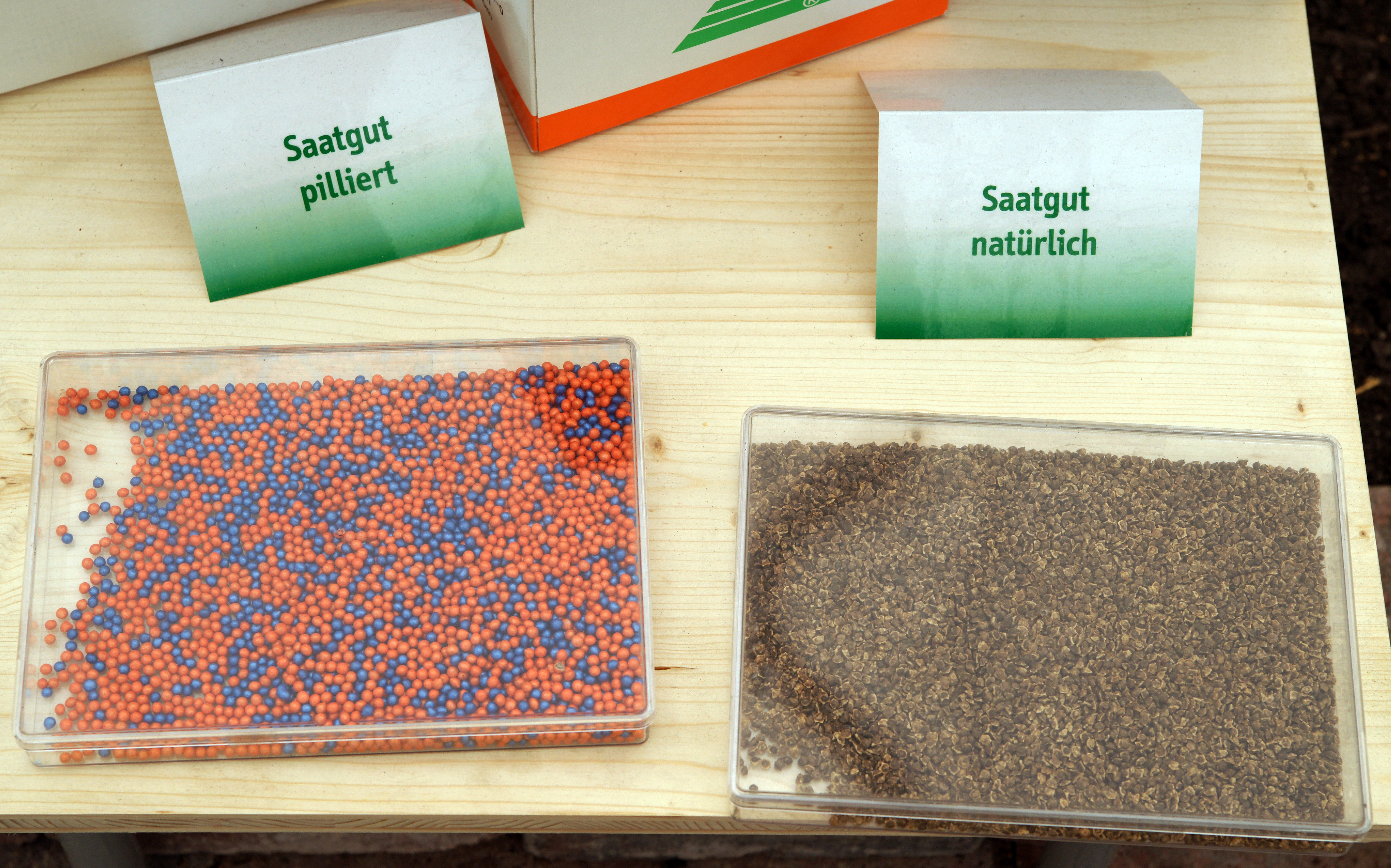 Sugar beet seeds encapsulated (left) and in their natural state (right).